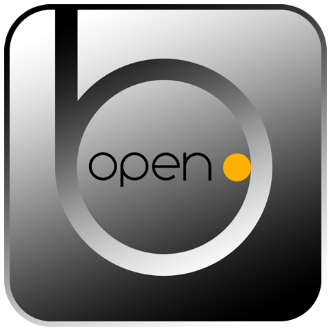 Logo for free software openBVE